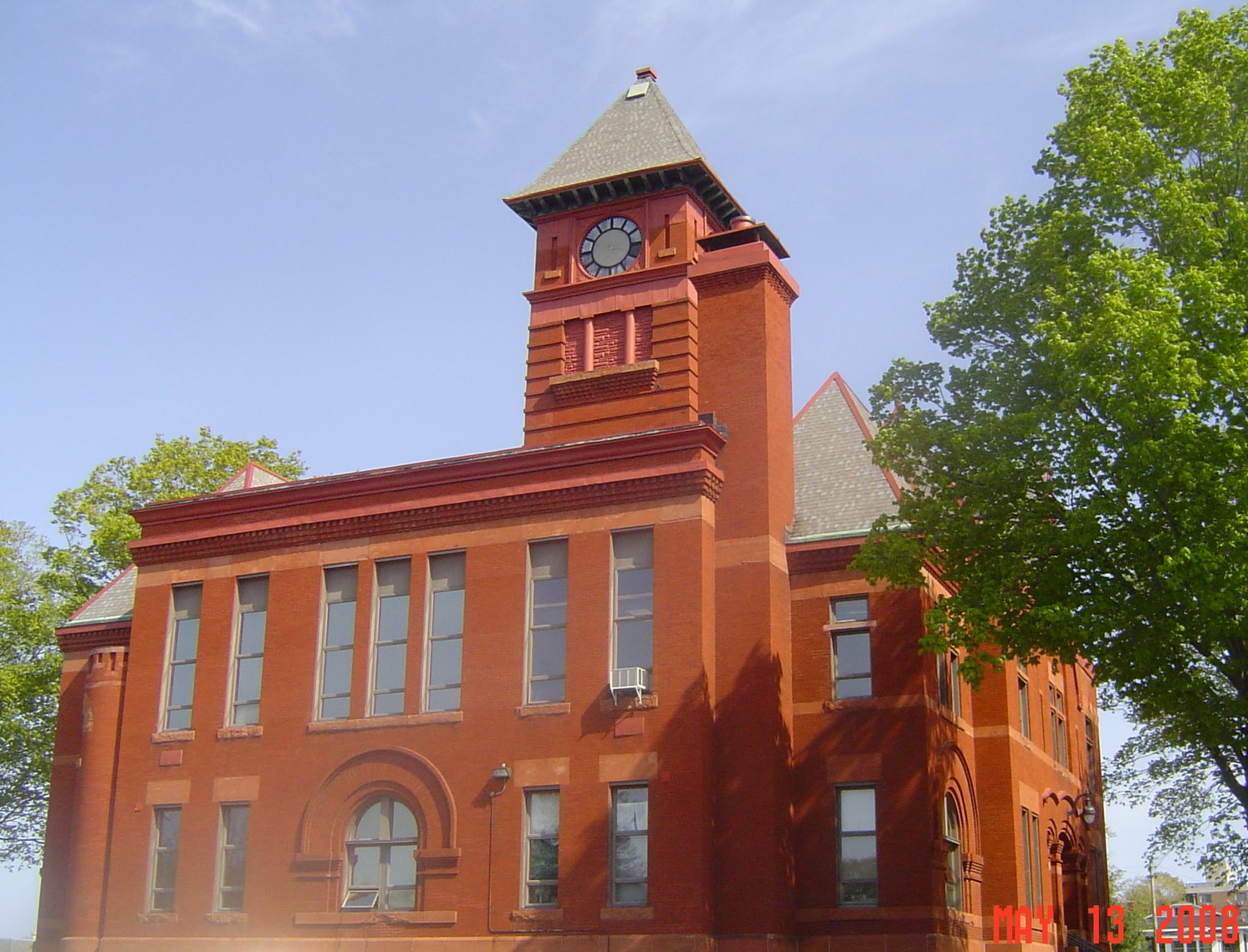 Mason County courthouse (Michigan) clock tower